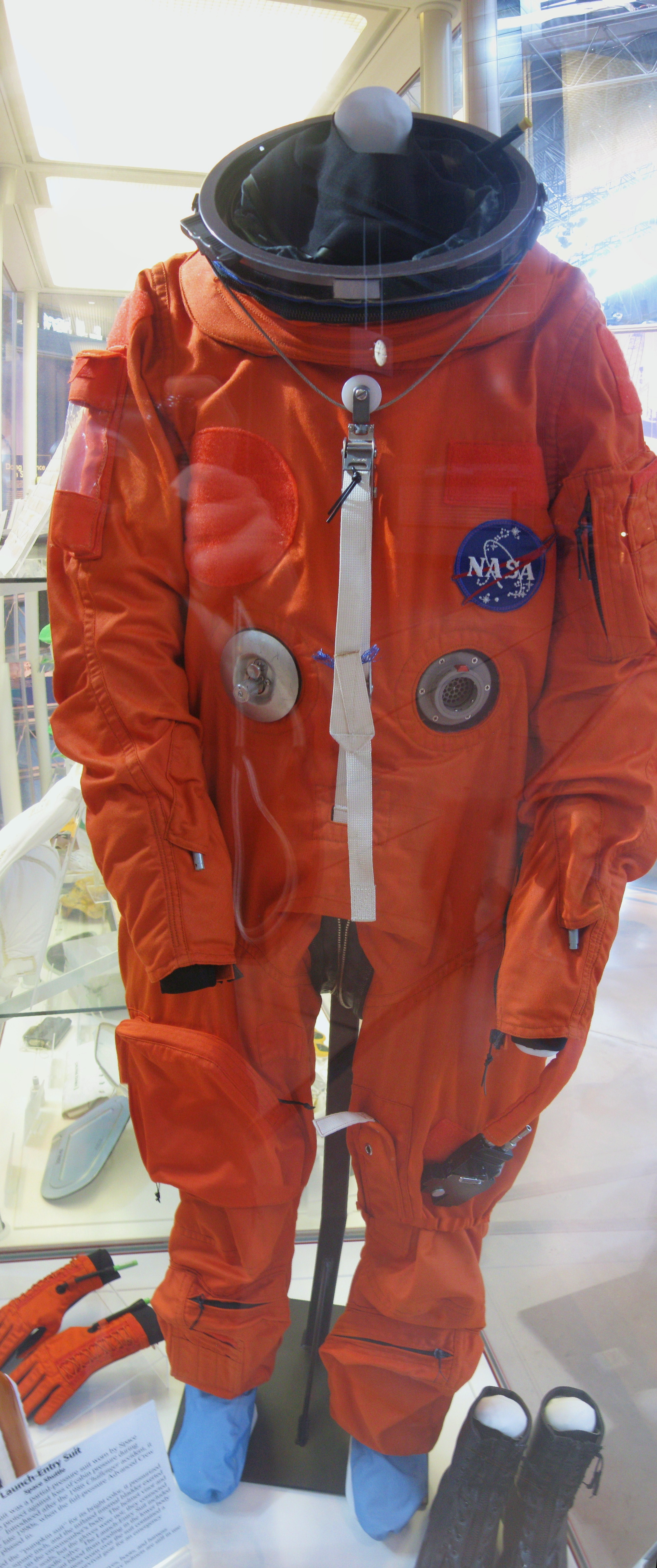 An American Launch Entry Suit, a partial pressure suit used on the Space Shuttle for launch and entry phases from 1988 to 1994, on display at the Steven F. Udvar-Hazy Center annex of the National Air and Space Museum in Chantilly, Virginia. This image is composed of several individual images taken at close range and stitched together.